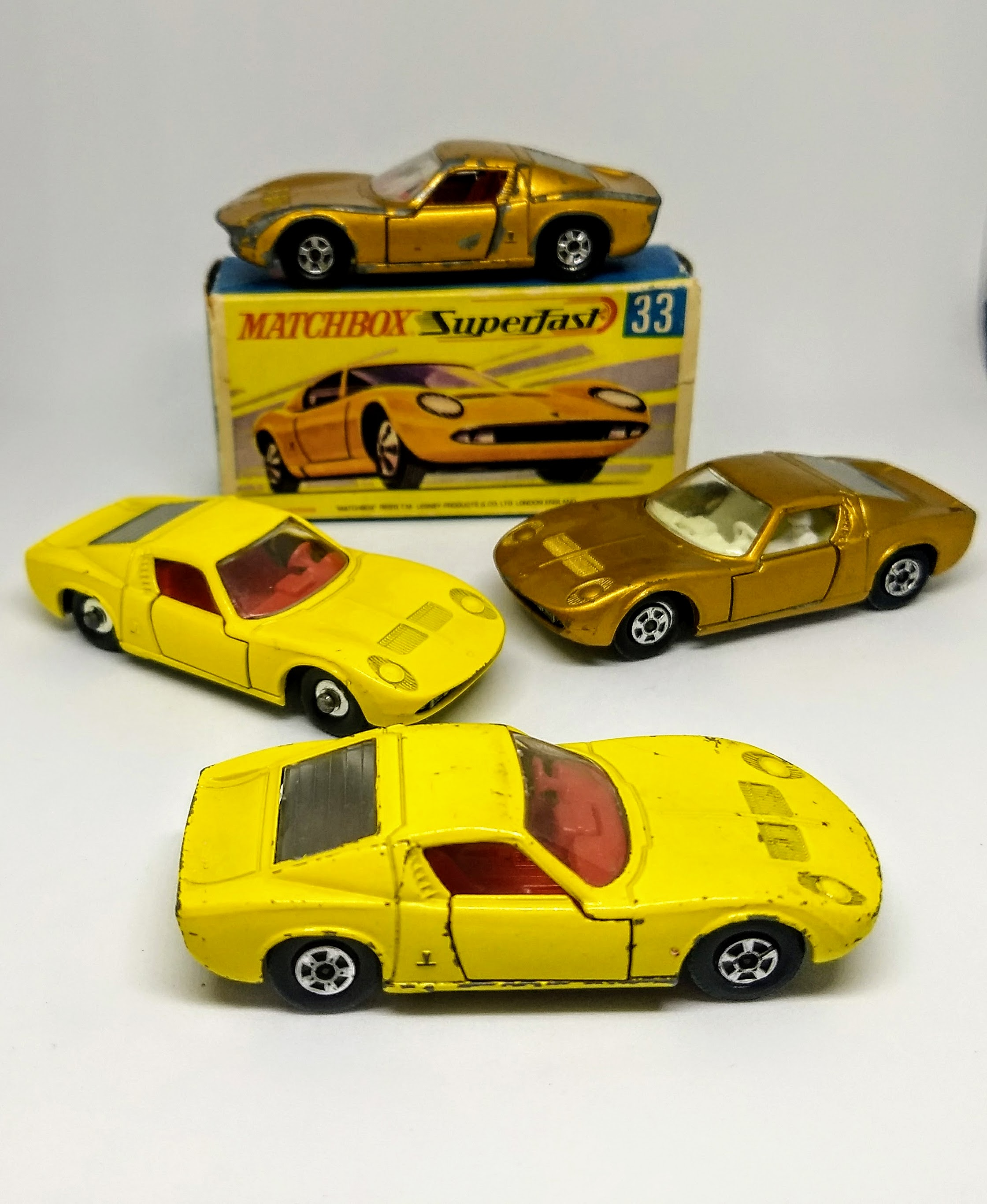 Matchbox Lamborghini Miuras